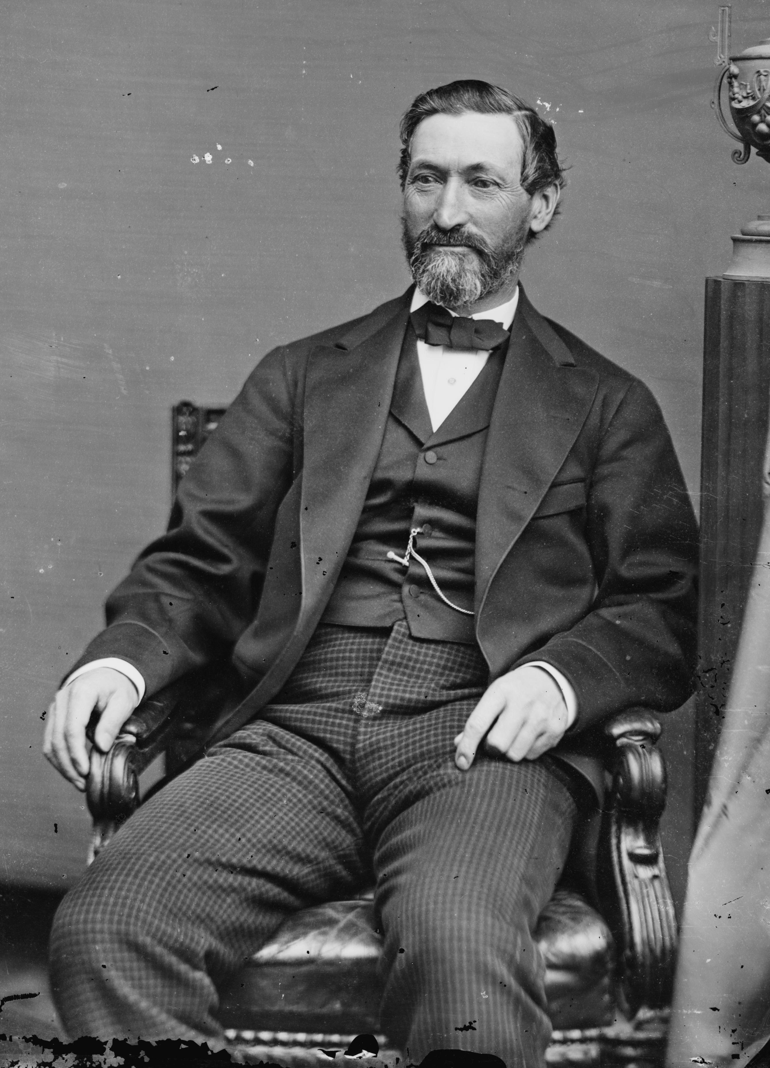 William Henry Barnum. Library of Congress description: "Hon. Wm. Henry Barnum of Conn"